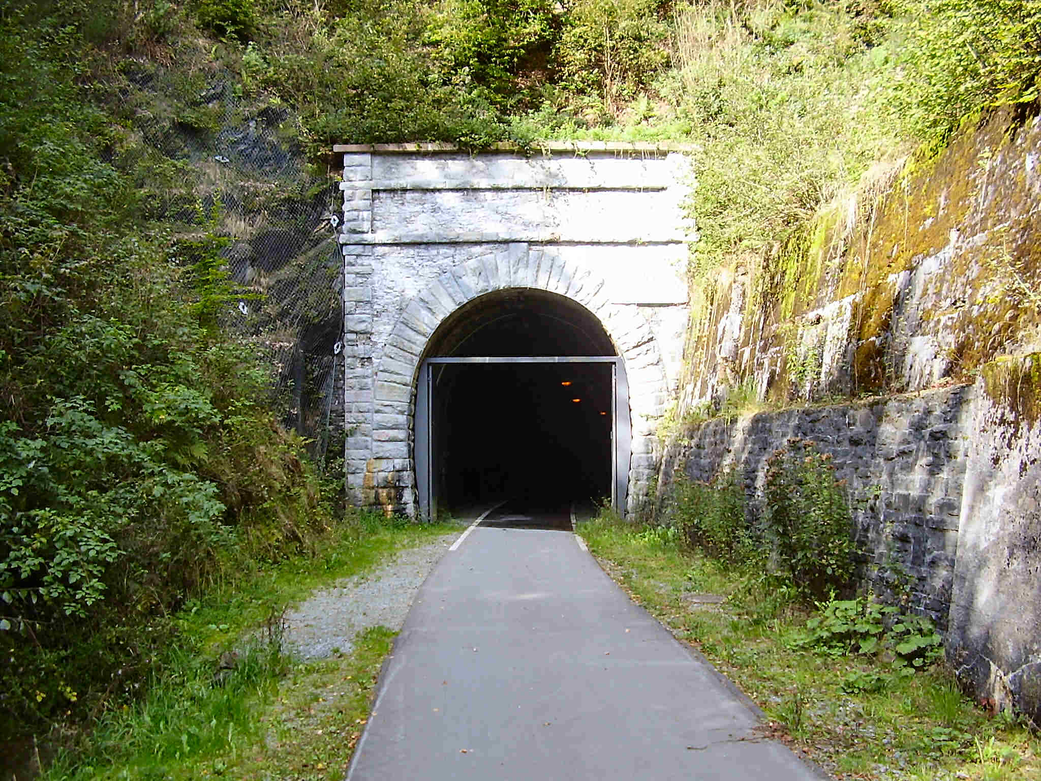 "Bat Tunnel" near Finnentrop